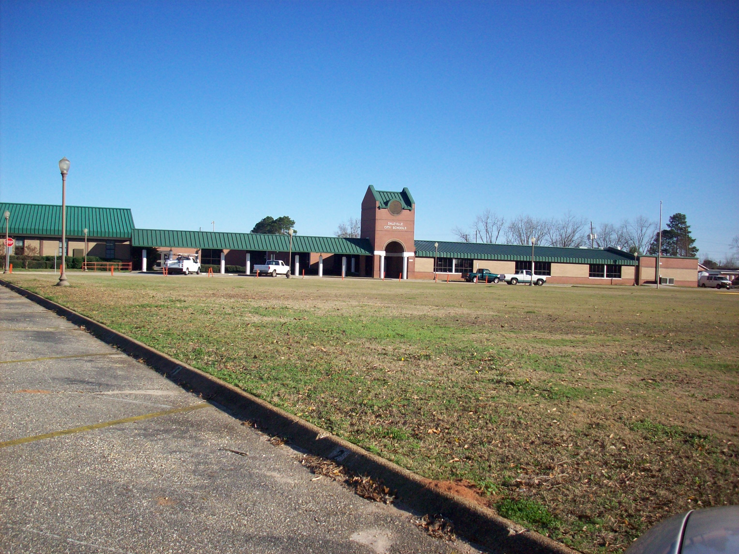 Daleville High School, Daleville, AL - Front View